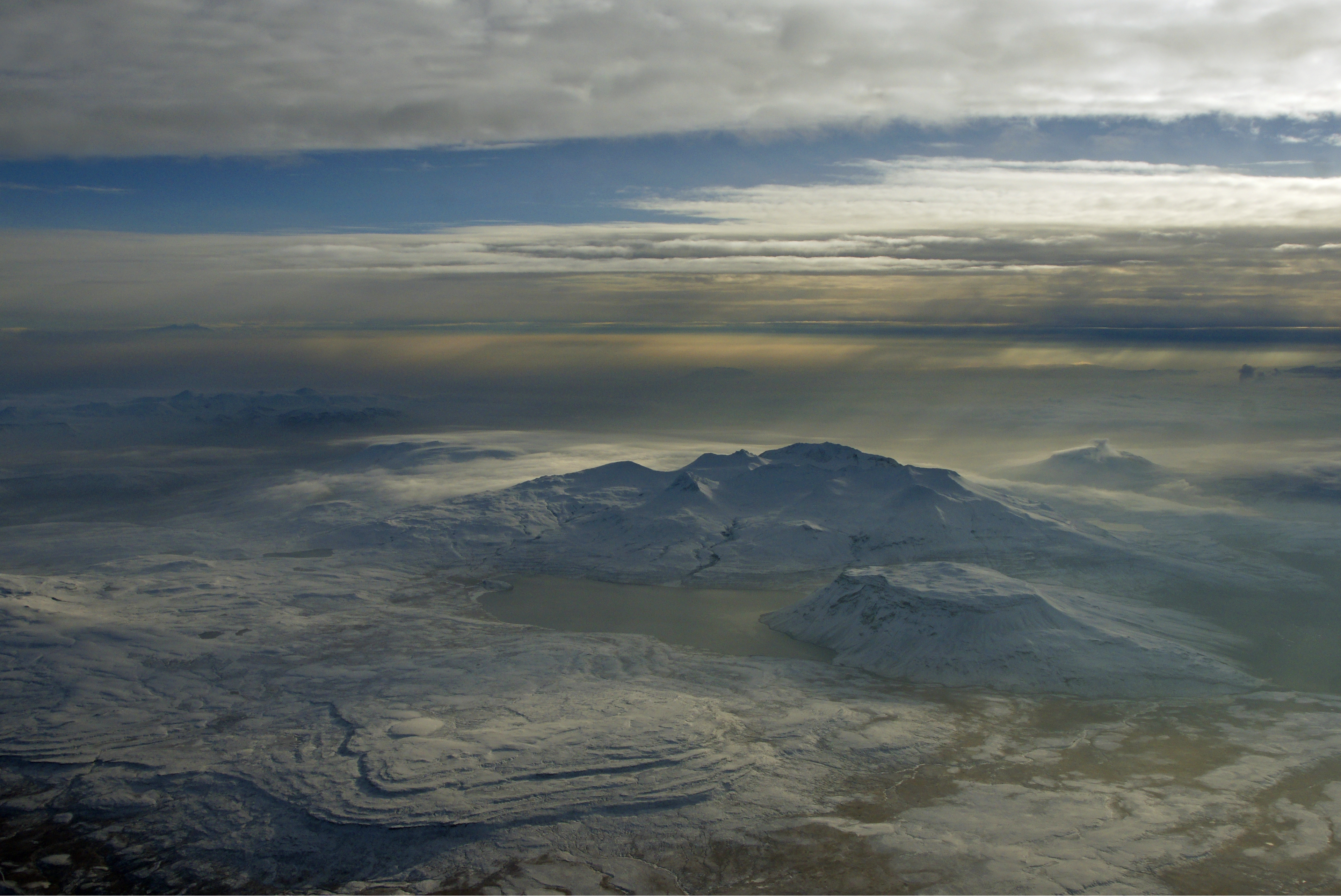 Aerial photographs of Iceland